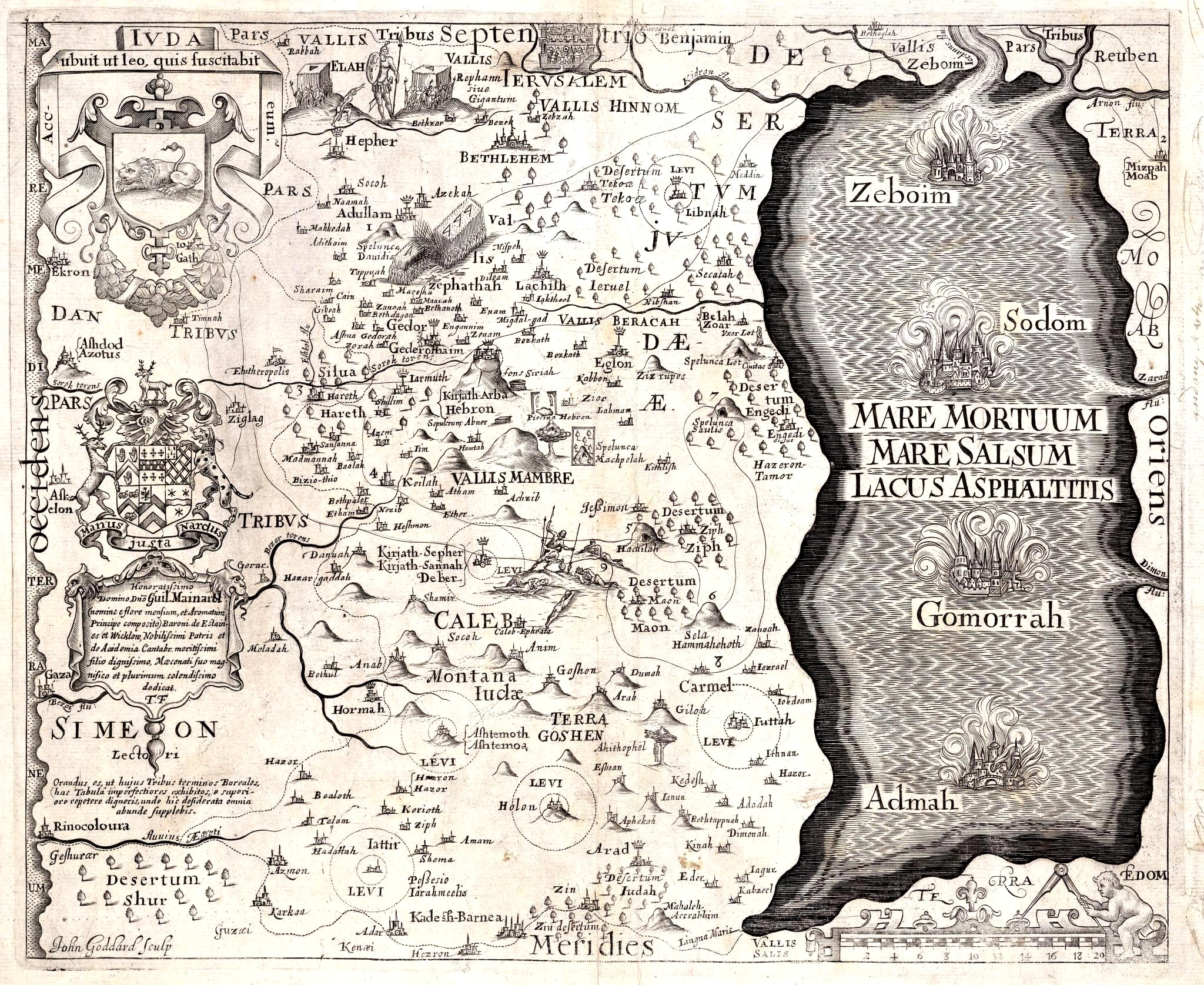 Tribe of Judah in the Promise Land